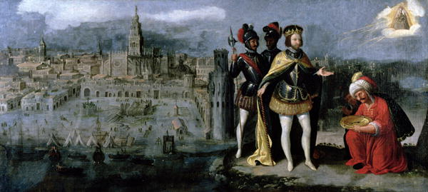 Capture of Seville by Ferdinand III